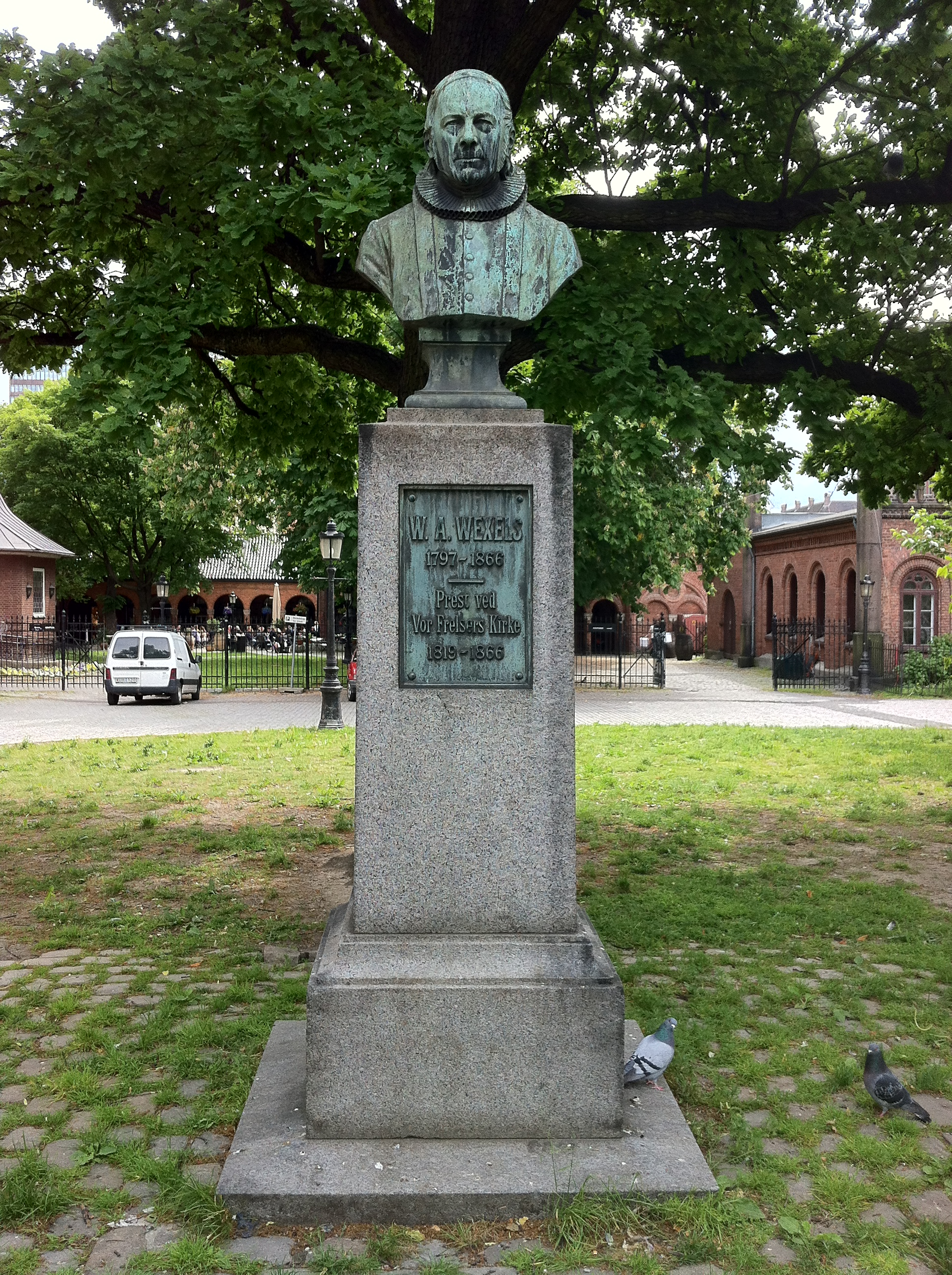 Memorial to Wilhelm Andreas Wexels 1797 - 1866